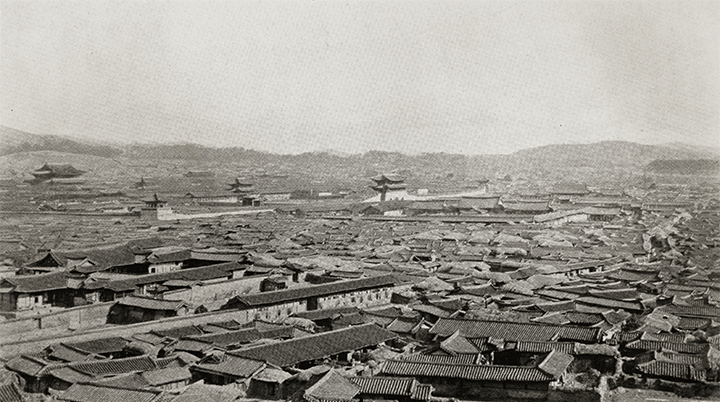 The photo was taken by English traveler Isabella Bird, when she visited Seoul in 1894.